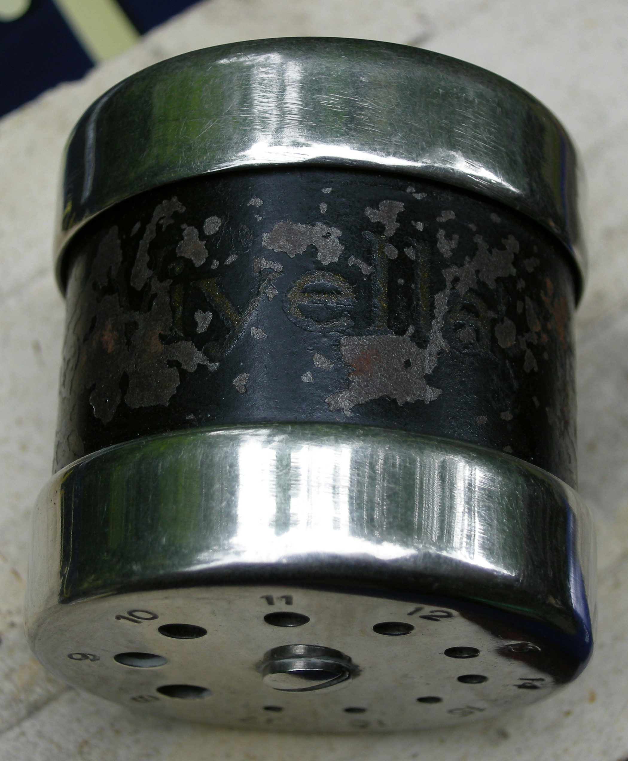 Black enamelled and chromed early (or austerity?) version of the Viyella needle gauge and knitting counter manufactured 1936-1940, showing the protruding screw which did not allow it to stand flat.